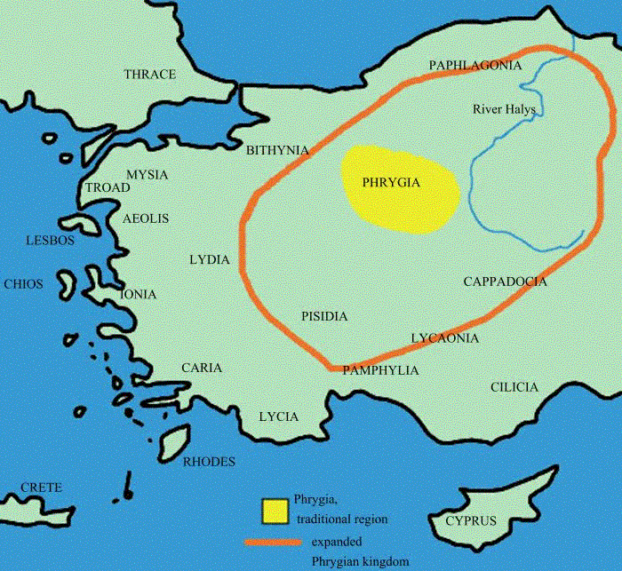 Map of the ancient region of Phrygia, made by User:Astrokey44, with corrections by User:Amizzoni. Source of the corrections: A. Kuhrt, The Ancient Near East.